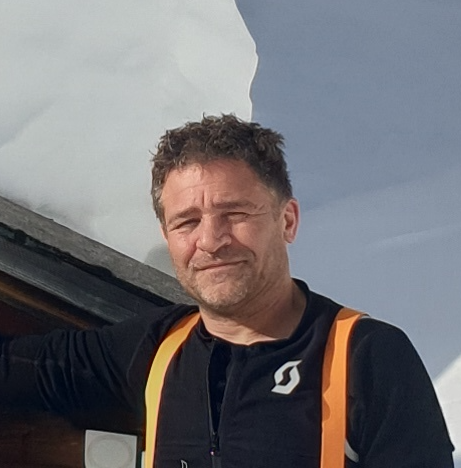 Portrait Prof Francois Balloux (UCL)